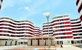 IIT Hyderabad which is under construction phase is 3KM away from Sangareddy city center.